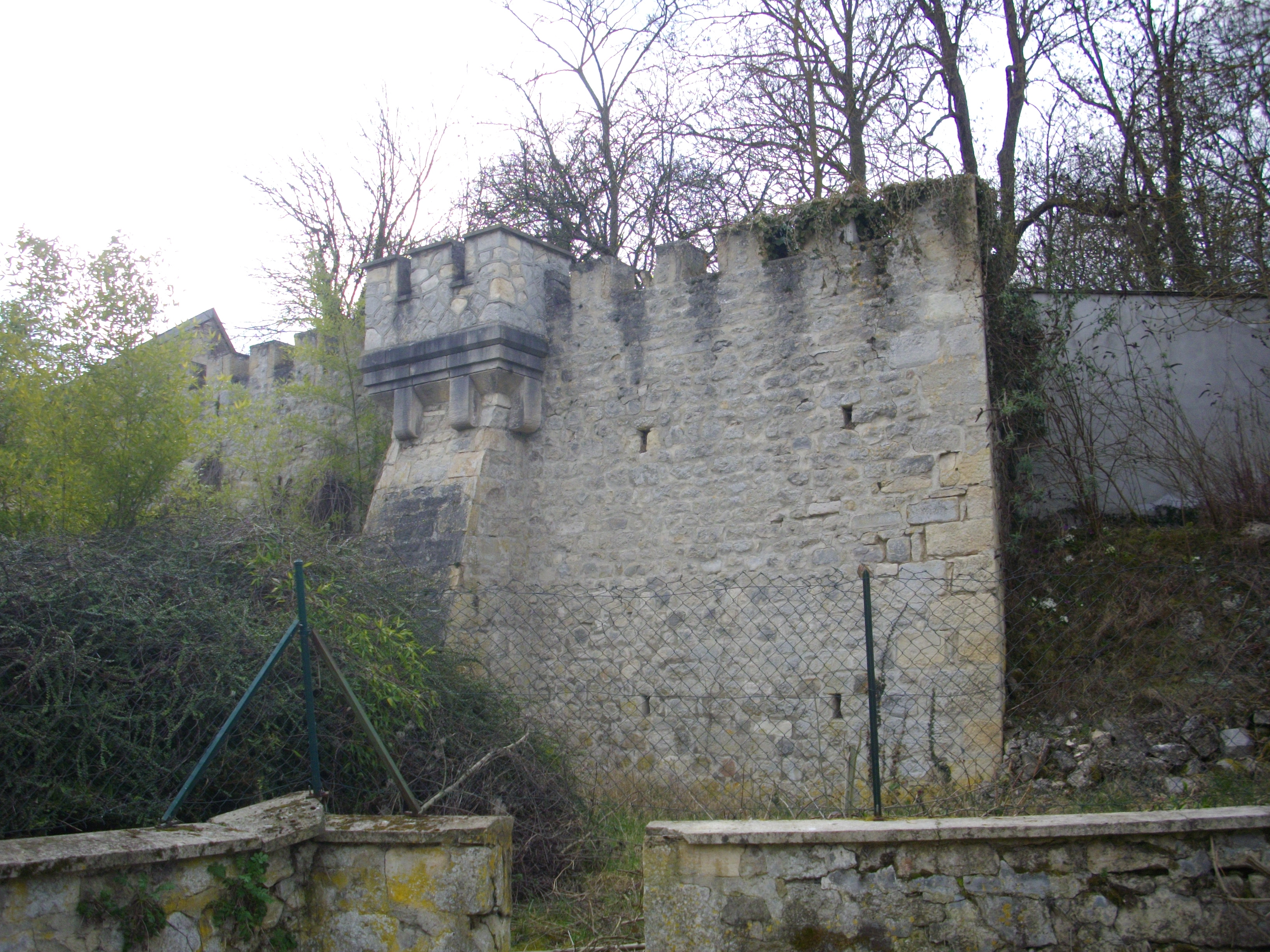 City wall in Cormicy (Marne, France)